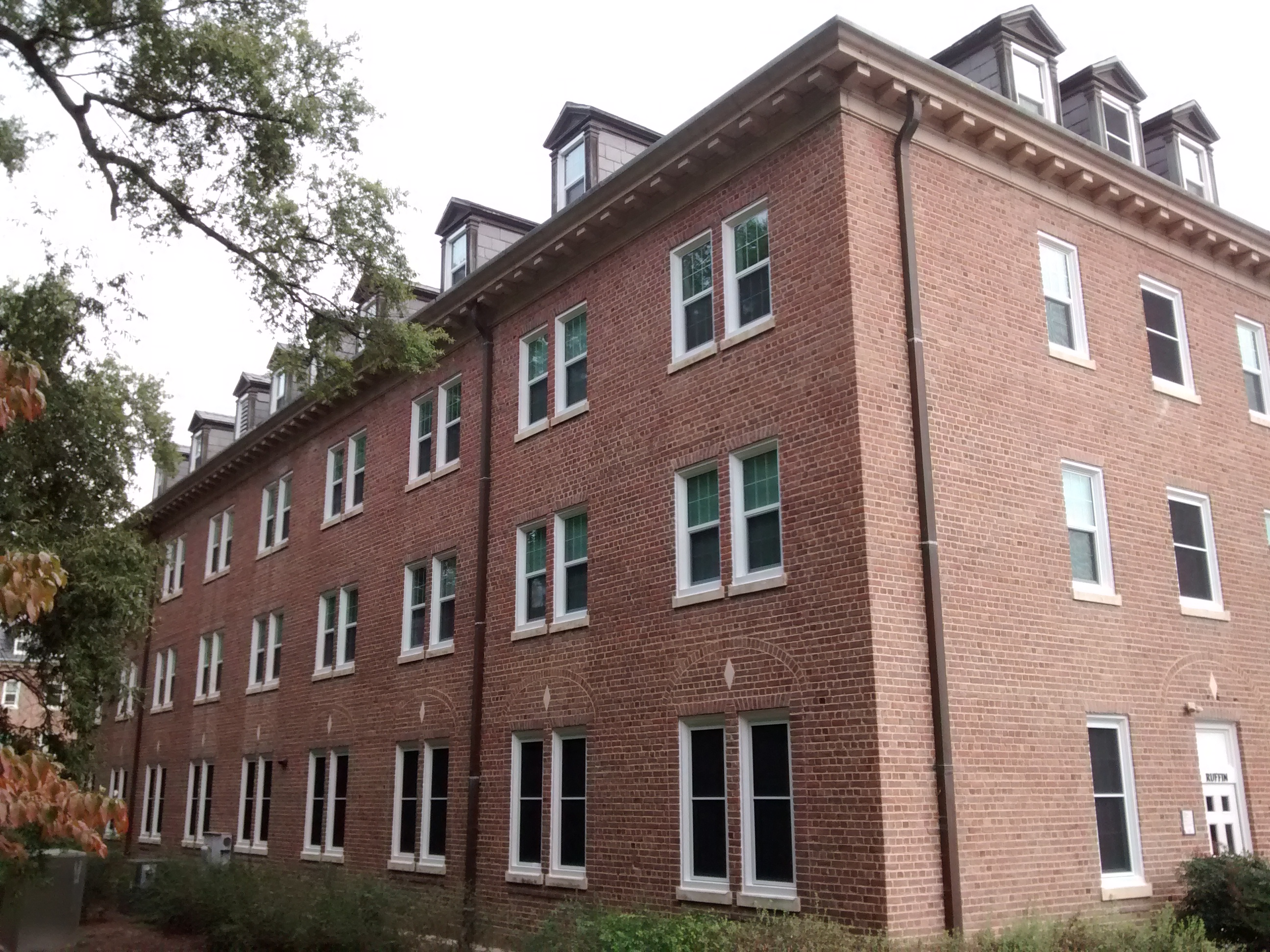 Ruffin Residence Hall at the University of North Carolina at Chapel Hill.